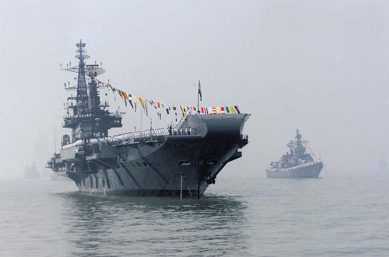 INS Viraat . Source: [1], linked at [2]. Lupo 11:22, 20 May 2005 (UTC) states that "the photographs are from U.S. military sources unless otherwise stated." Since they don't give any other source on this image: (Lupo 06:48, 23 May 2005 (UTC))